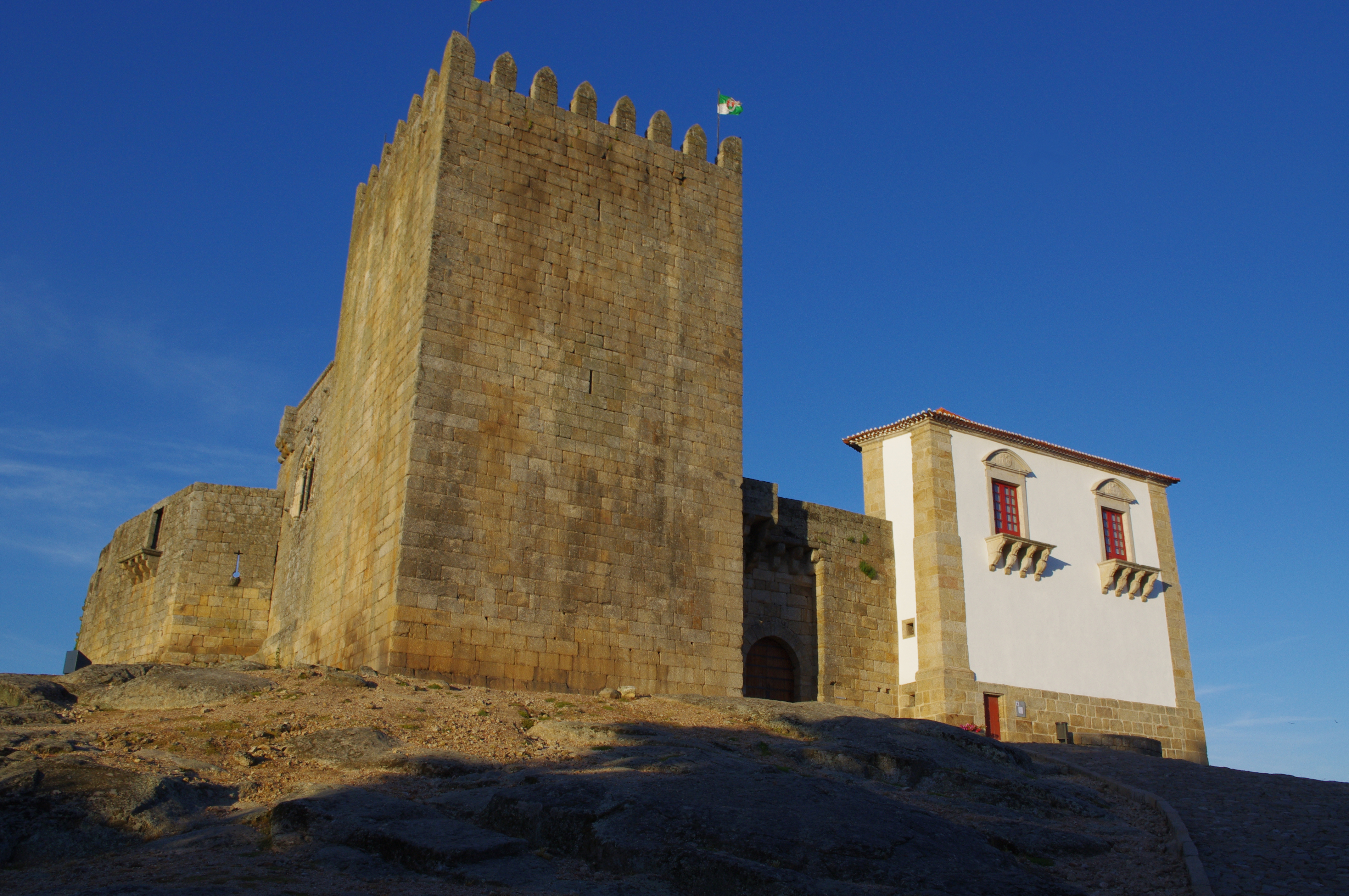 Begun in 1266, Belmonte was the center of the fiefdom of the Cabral family, whose most famous member is Petro Alvares Cabral, the first navigator to land in Brazil, claiming it for the Portuguese king. Like many old castles, the walls were later extended to enclose the entire 15th century town of Belmonte.